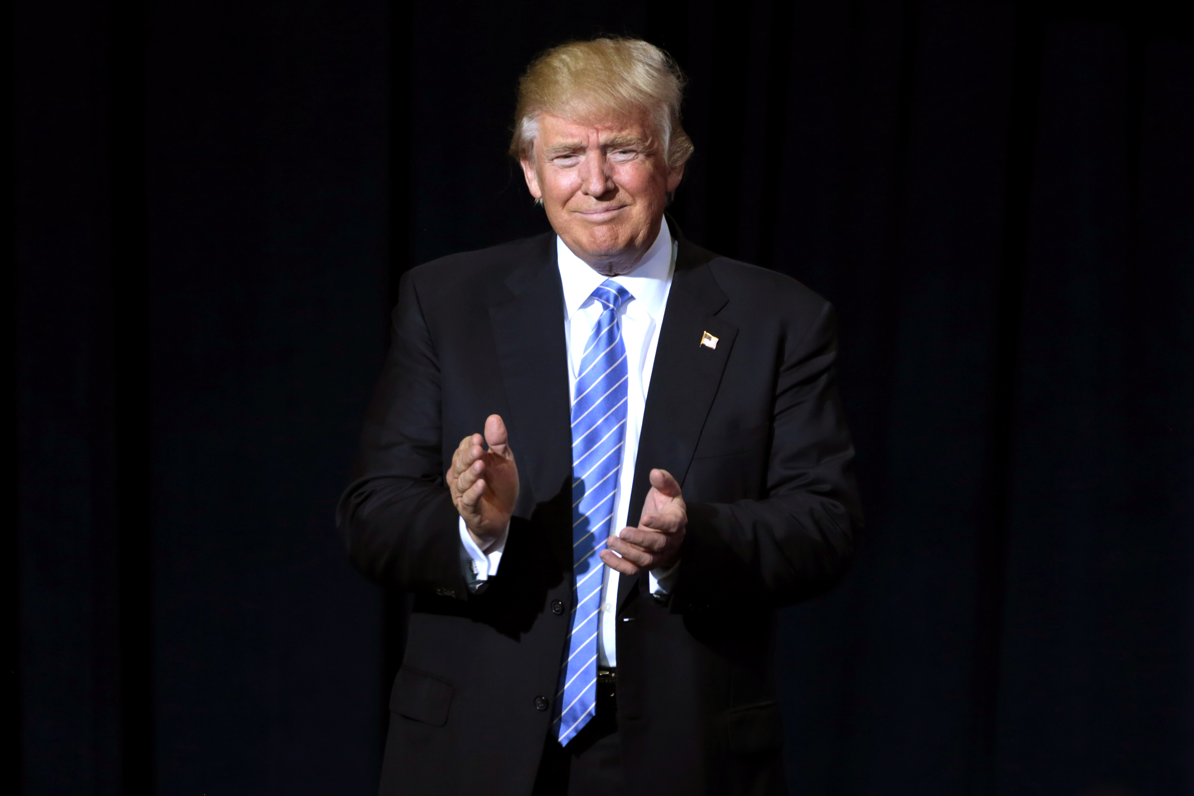 Donald Trump speaking to supporters at an immigration policy speech at the Phoenix Convention Center in Phoenix, Arizona.